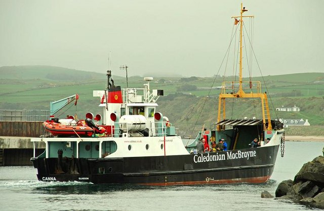 The Rathlin ferry, operated by Caledonian MacBrayne at the time. Shortly after this, the service passed to a new operator who charter the existing vessel, Canna. An additional boat - a high-speed catamaran (taking 100 passengers) was promised for summer 2009.